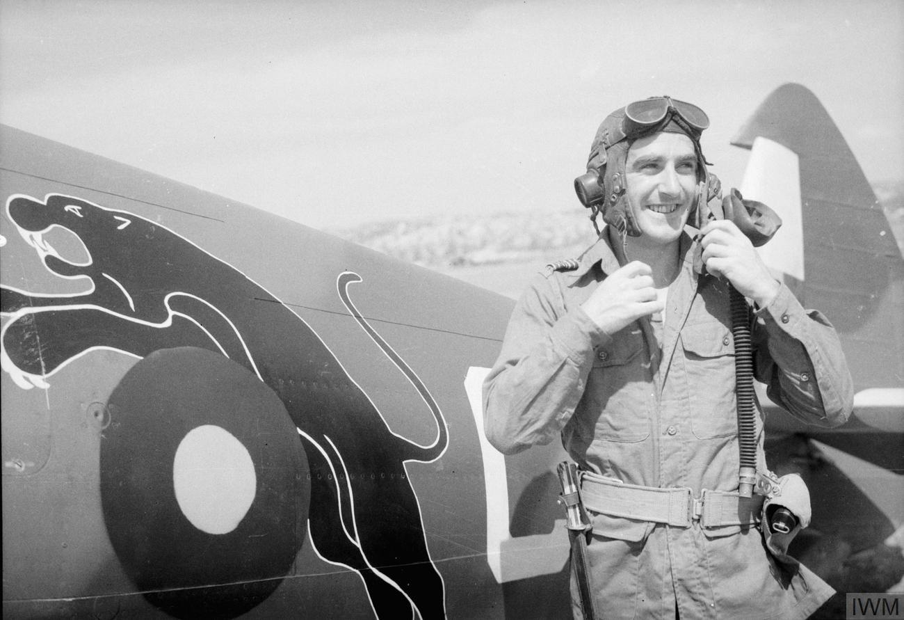 Air Ministry Second World War Official Collection Comment : This appears to show a pilot and Spitfire of No. 152 "Black Panther" Squadron RAF in Burma circa 1944-1945.